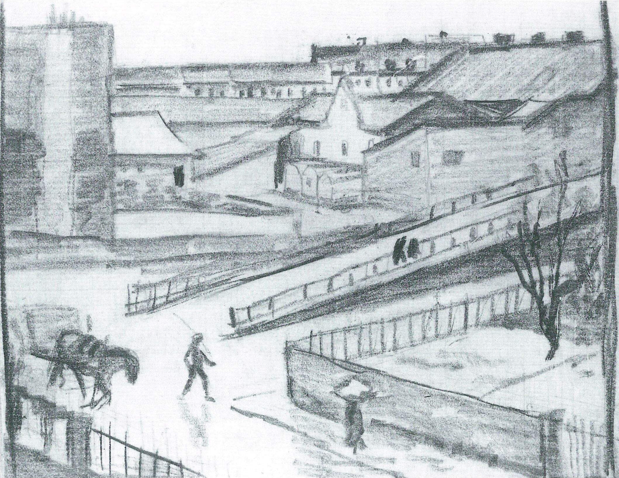 Sketch of the bridge "Viktoriabrücke" in Bonn, Germany, by August Macke.